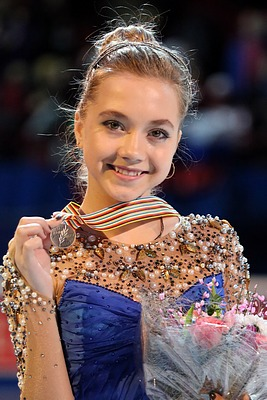 Elena Radionova at the 2015 European Championships - Awarding ceremony